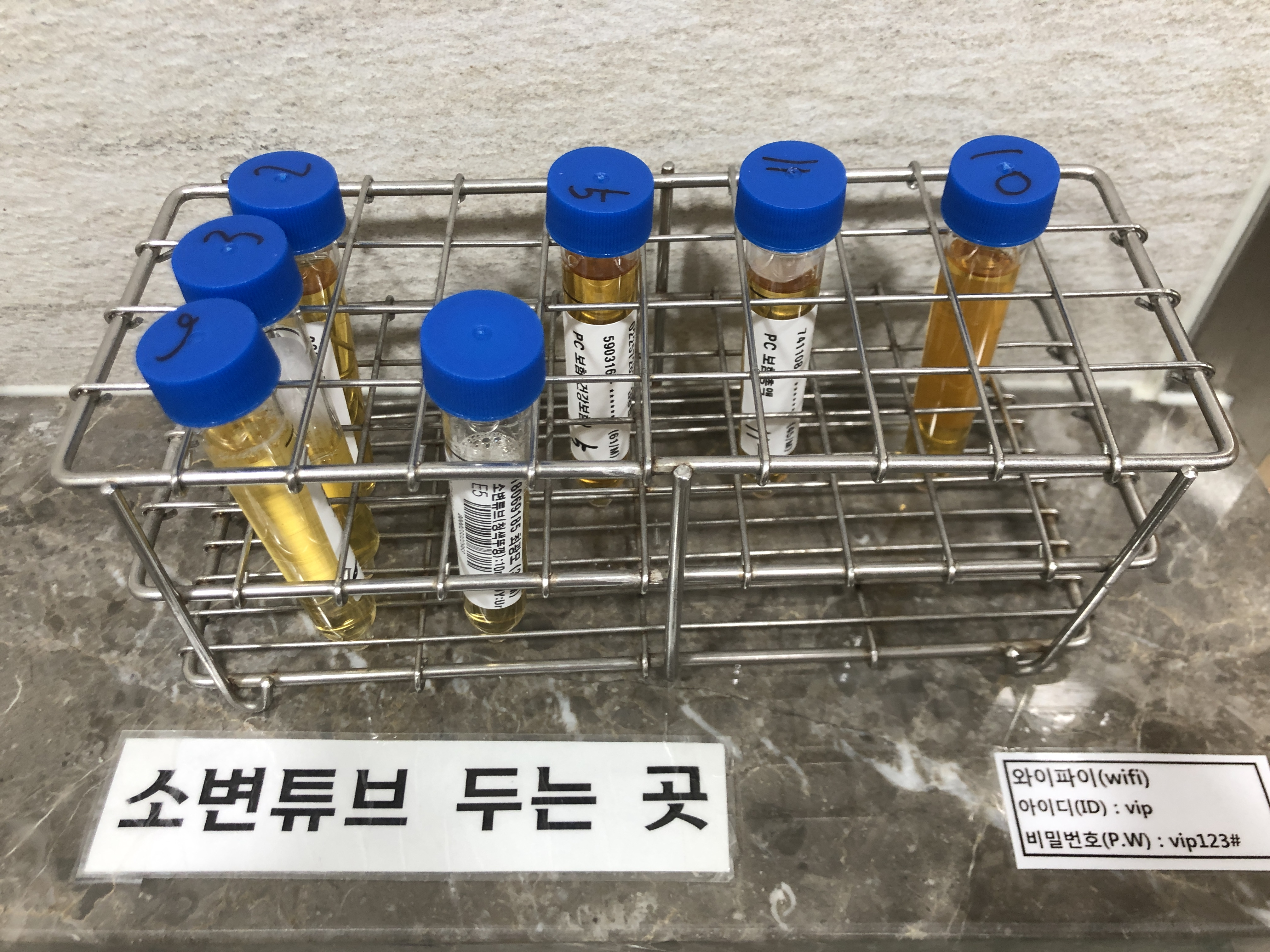 Wonju Sevrance Christian Hospital